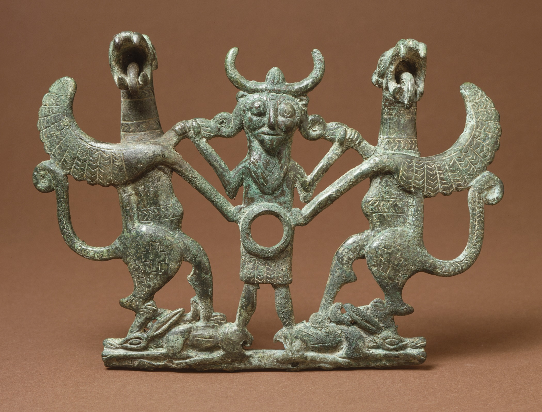 Iran, Luristan bronzes, circa 1000-650 B.C. Tools and Equipment; horse trappings Bronze 6 x 8 1/2 in. (15.2 x 22 cm) The Nasli M. Heeramaneck Collection of Ancient Near Eastern and Central Asian Art, gift of The Ahmanson Foundation (M.76.97.106) Art of the Ancient Near East Currently on public view: Hammer Building, floor 3